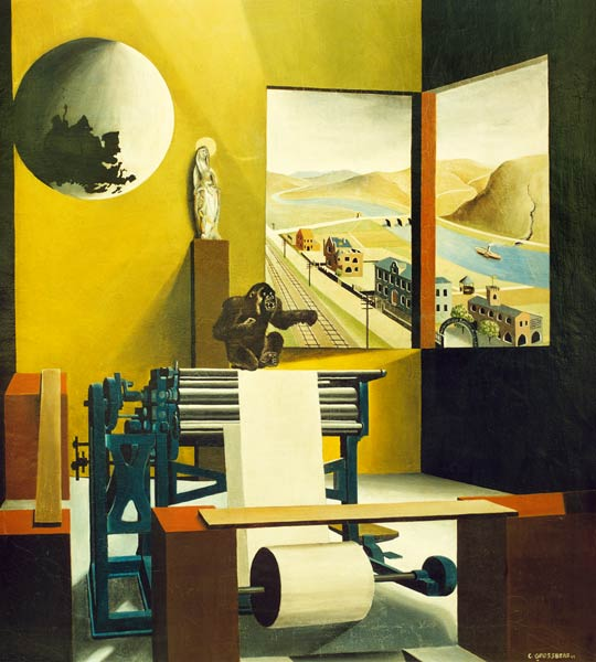 Machineruimte